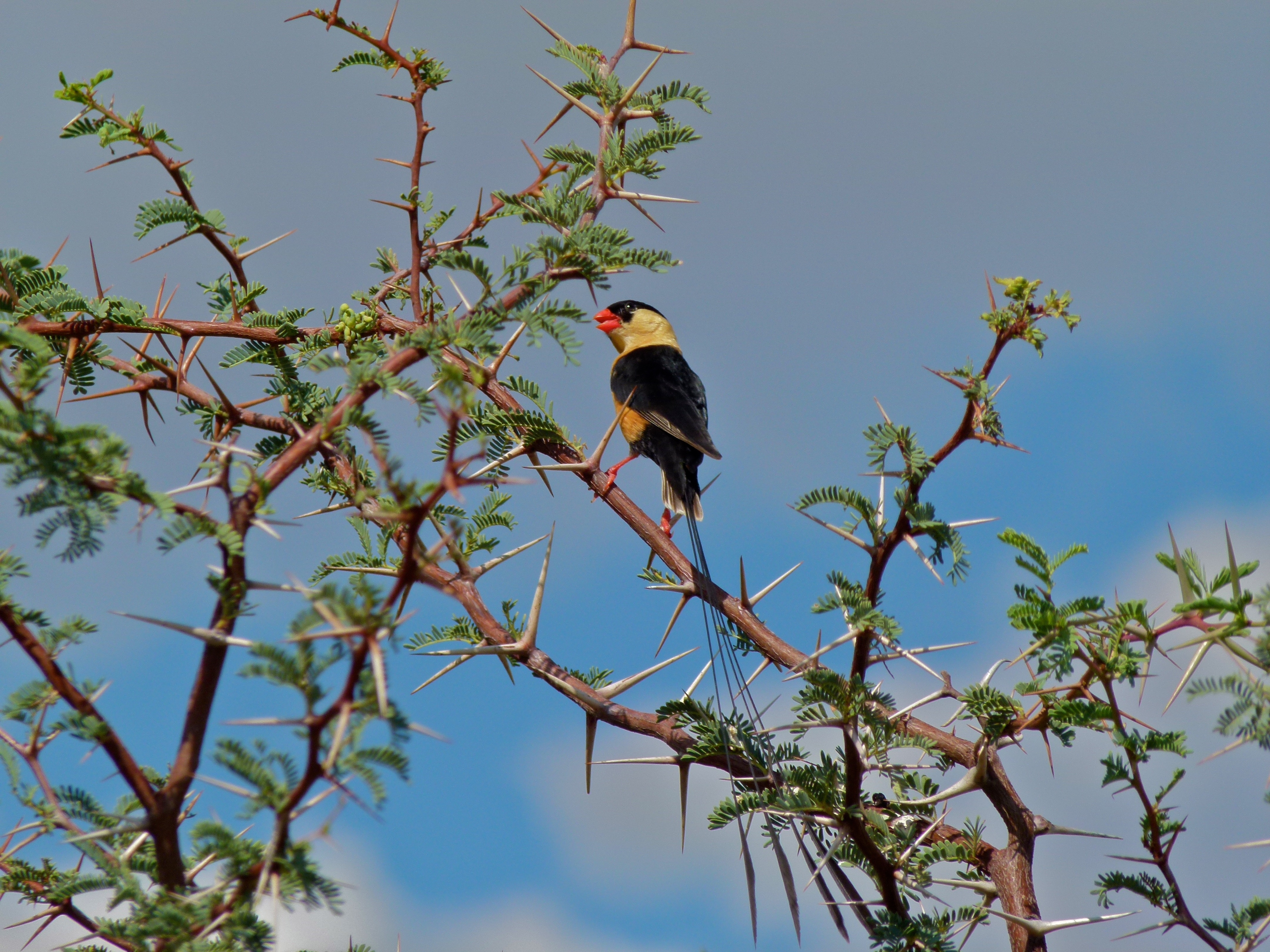 Cubitje Quap Waterhole, Kgalagadi Transfrontier Park, SOUTH AFRICA